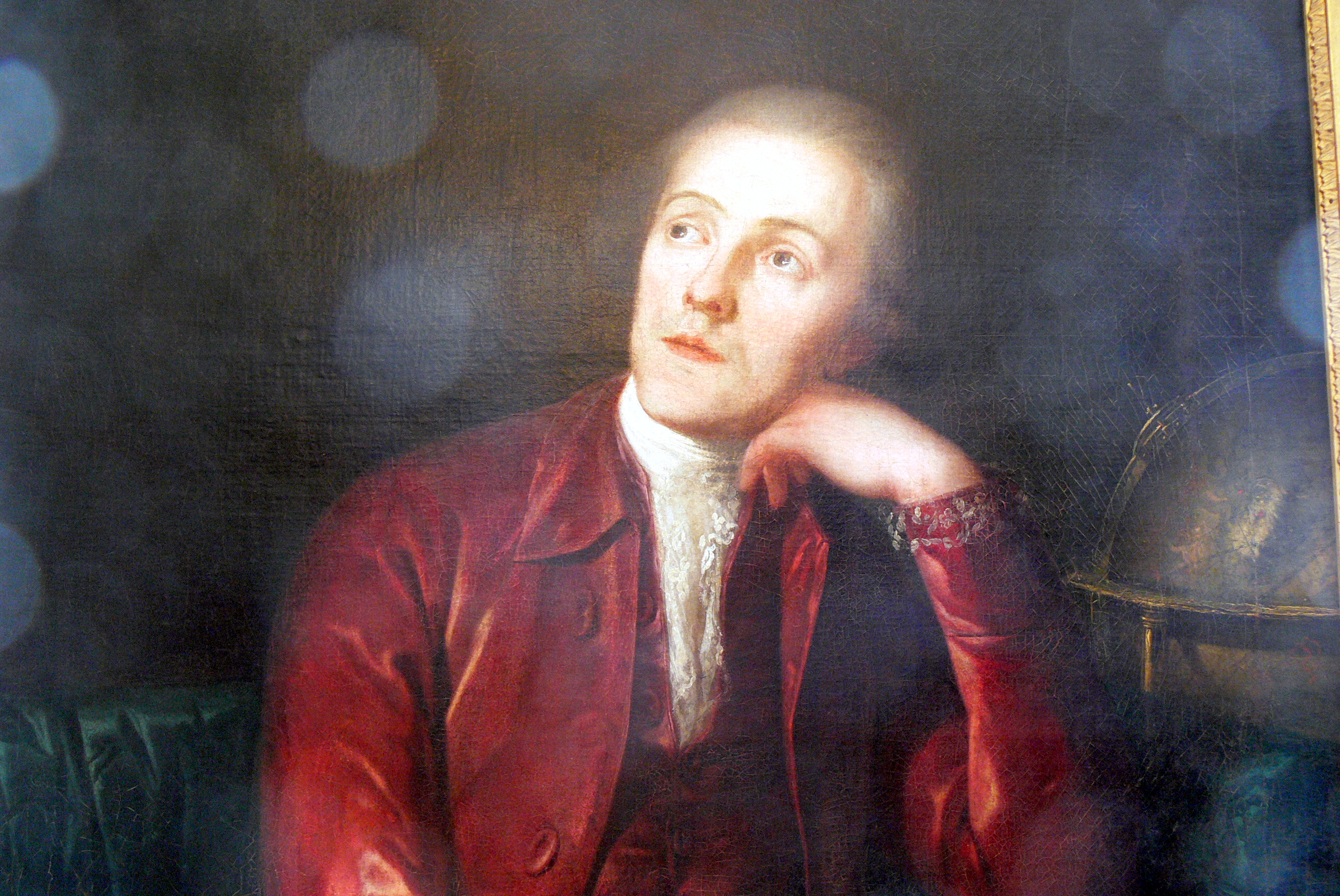 Portrait of Nicolo Francesco Leonard Pacassi, architect of Prague castle 1753-1770.